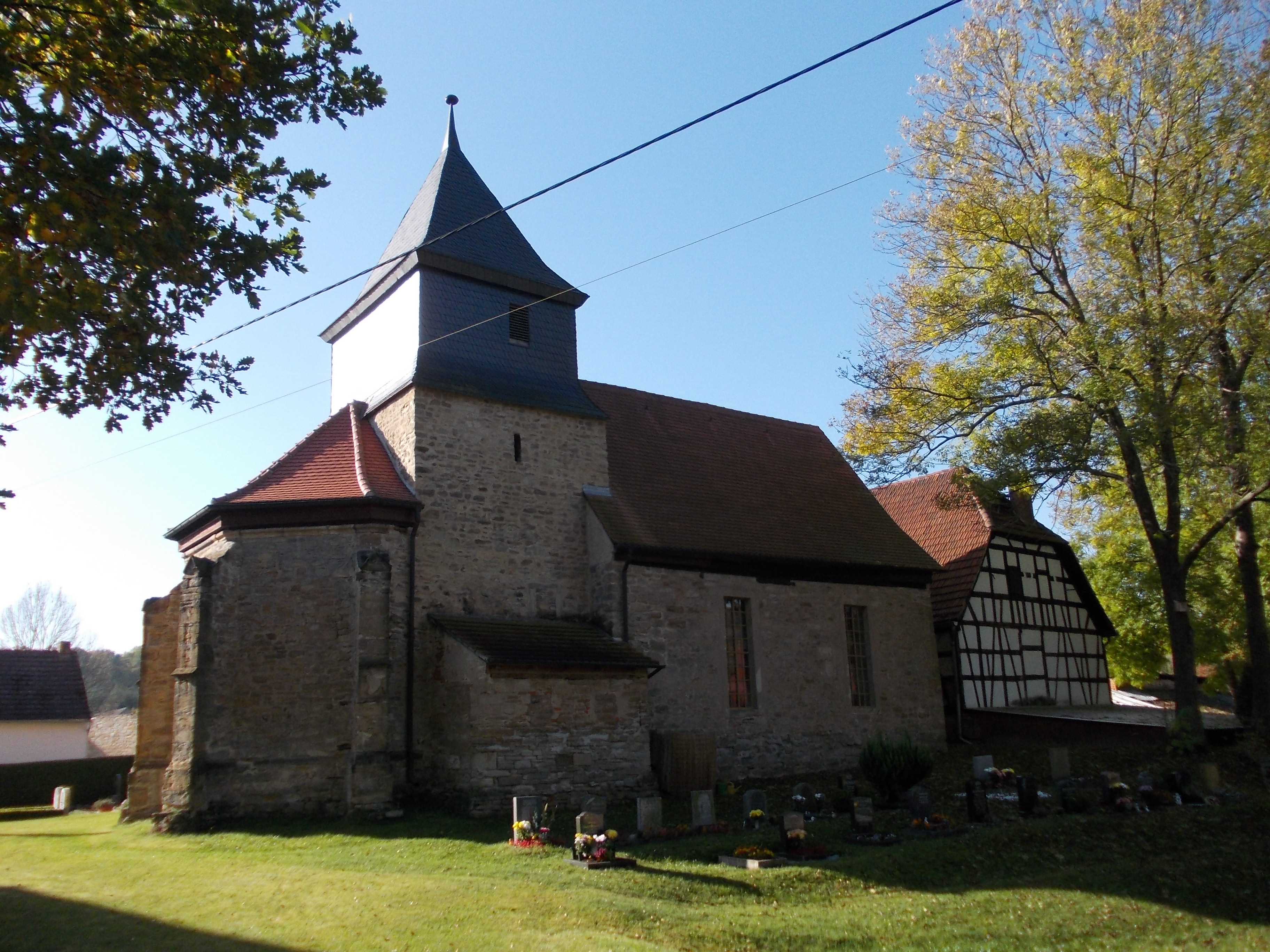 Ossig church (Gutenborn, district of Burgenlandkreis, Saxony-Anhalt)